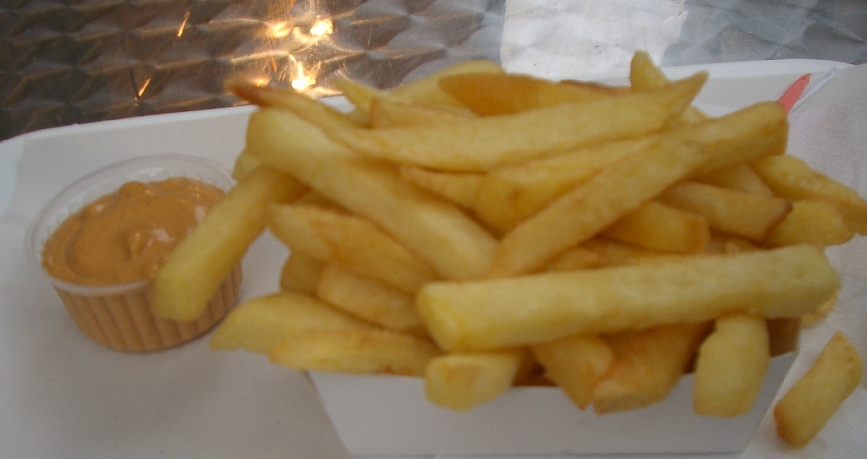 our first serving of belgian frites. with andalouse sauce.